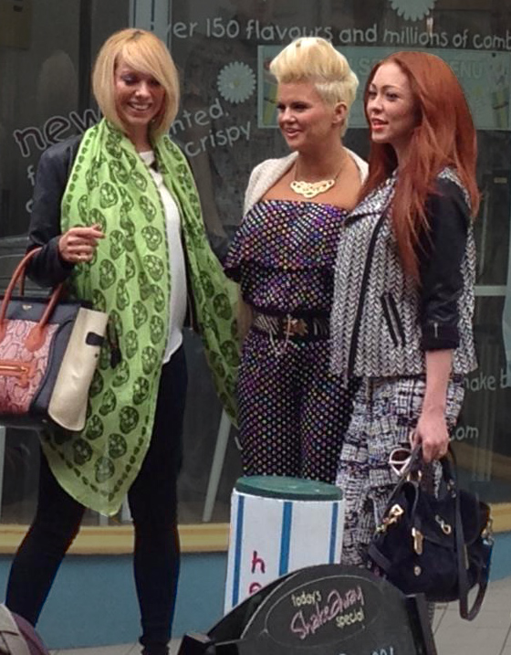 Atomic Kitten in Bournemouth, 2013. (Cropped and modified version of original photograph).